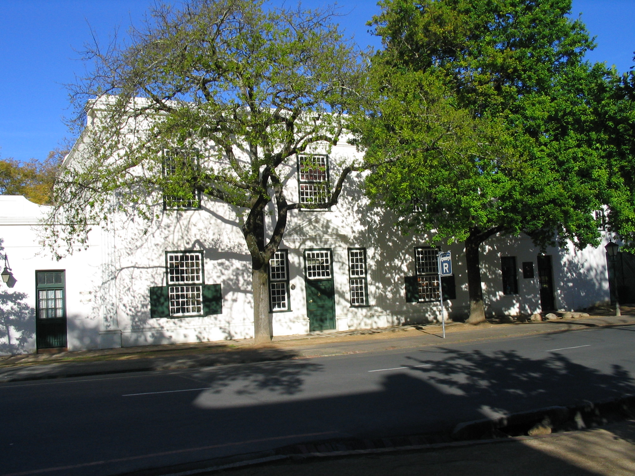 Grosvenor House, Drostdy Street, Stellenbosch This media shows a South African Protected Site with SAHRA file reference 9/2/084/0051.